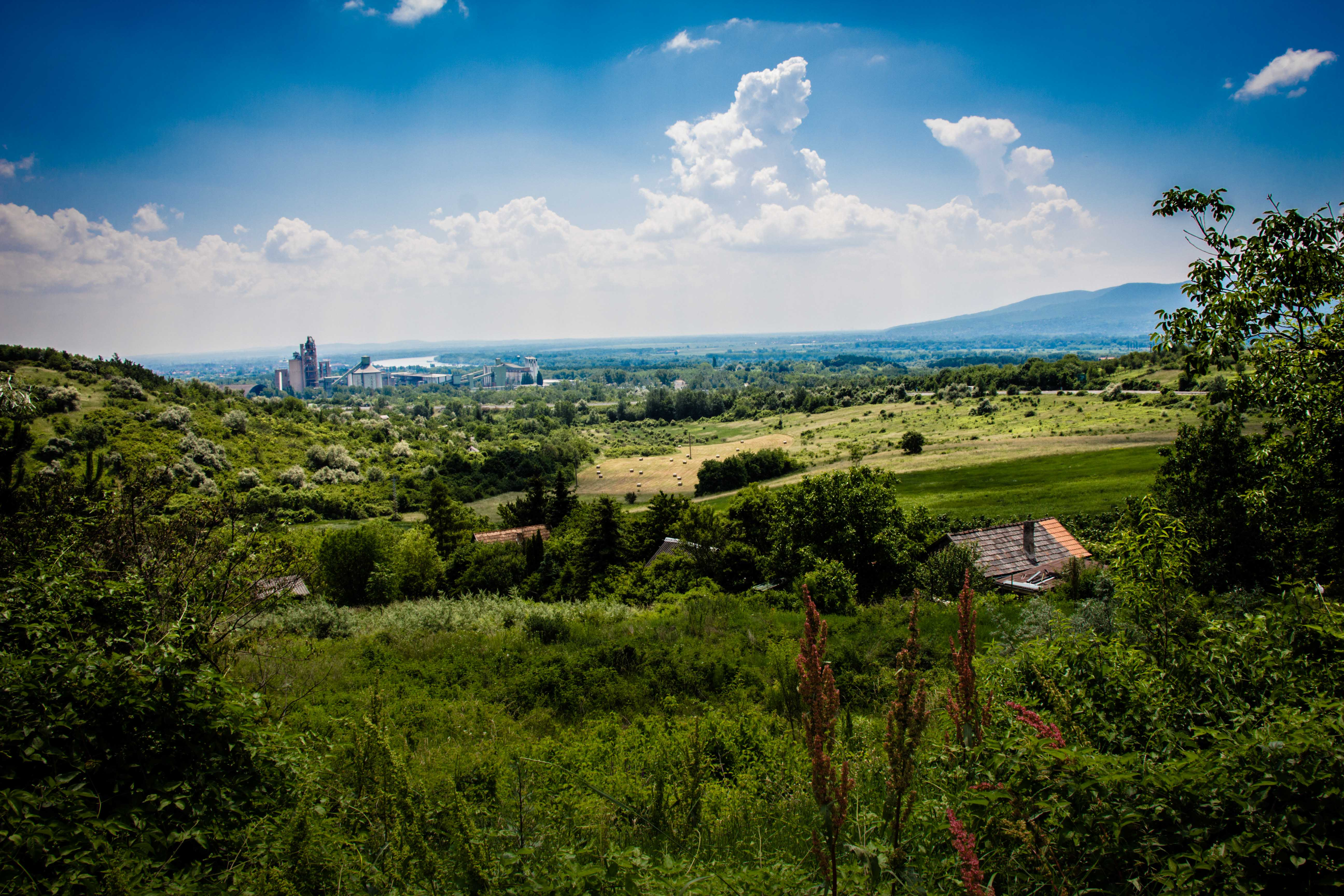 A landscape in Pest County near Vác. Duna-Dráva Cement Ltd. (DCM) is one of the market leader companies in Hungarian building materials industry, operating with 3 main business lines, such as cement, concrete and aggregates and provides numerous services in concrete technology.